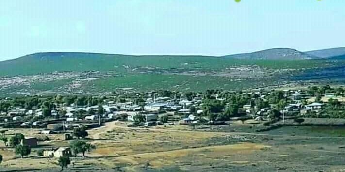 Xaafada Koobaad ee Magaalada Xerogeel